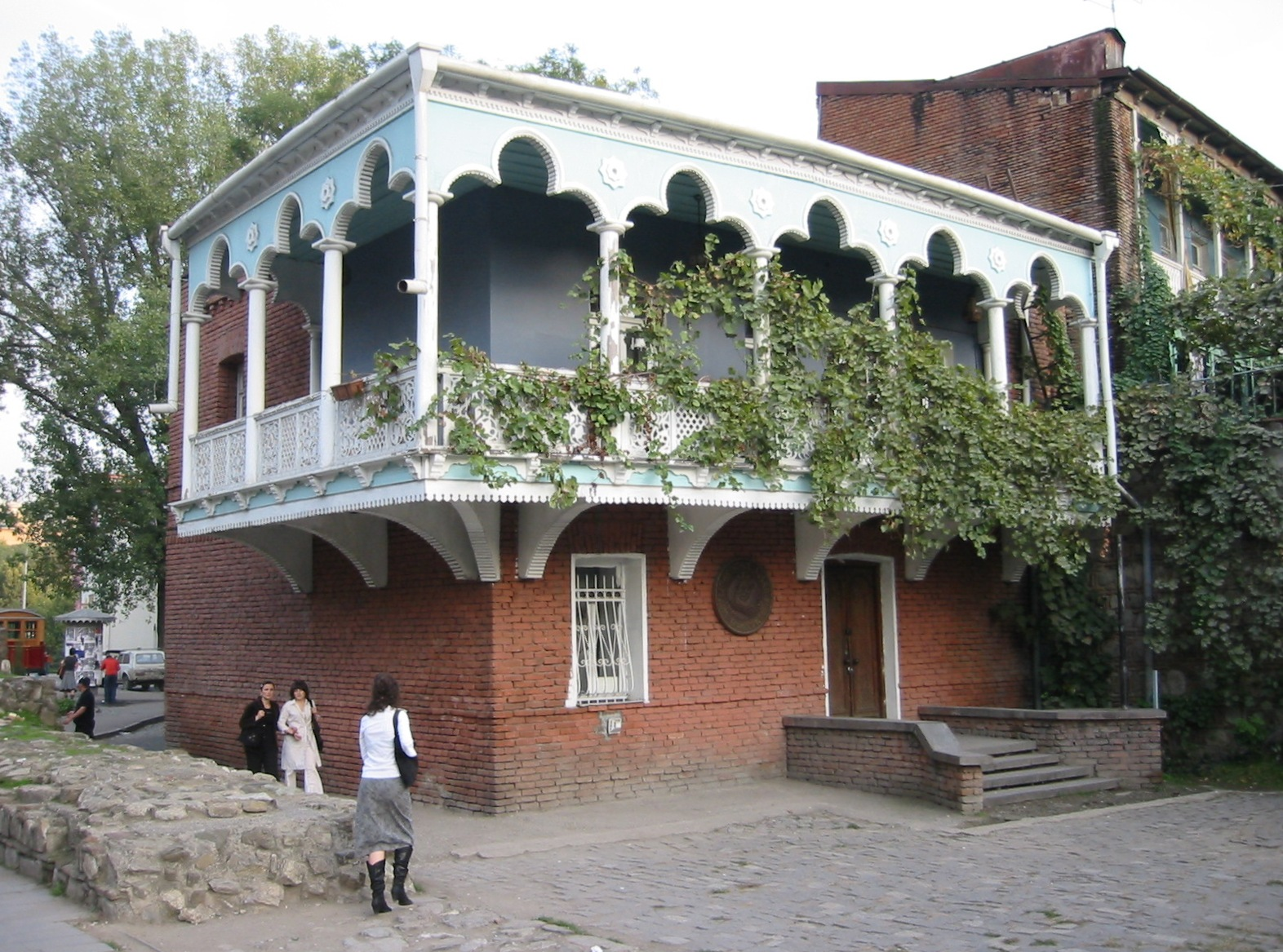 Decorative Porches